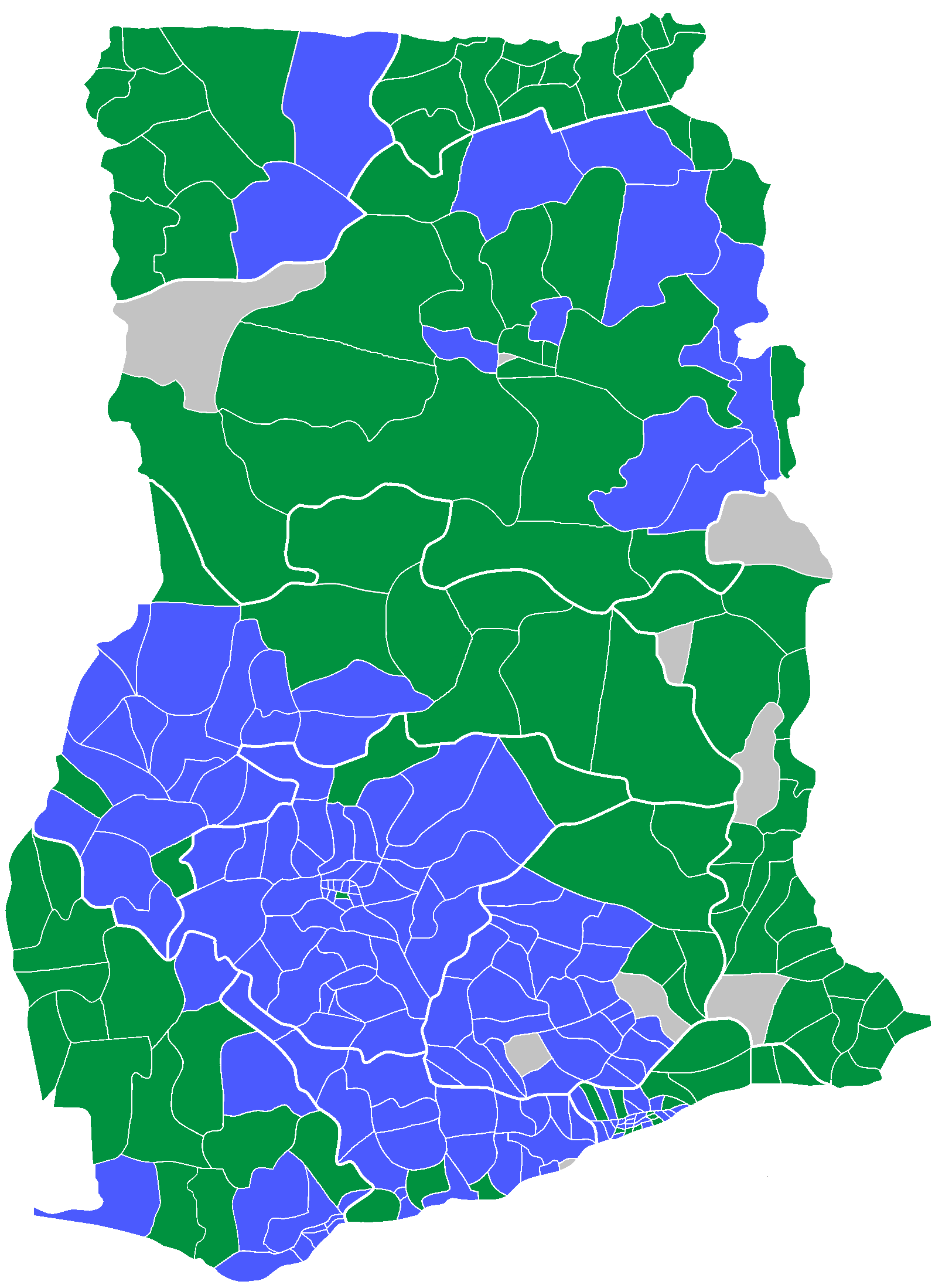 Result of Ghanaian Presidential Election, 2016. BY Constituencies